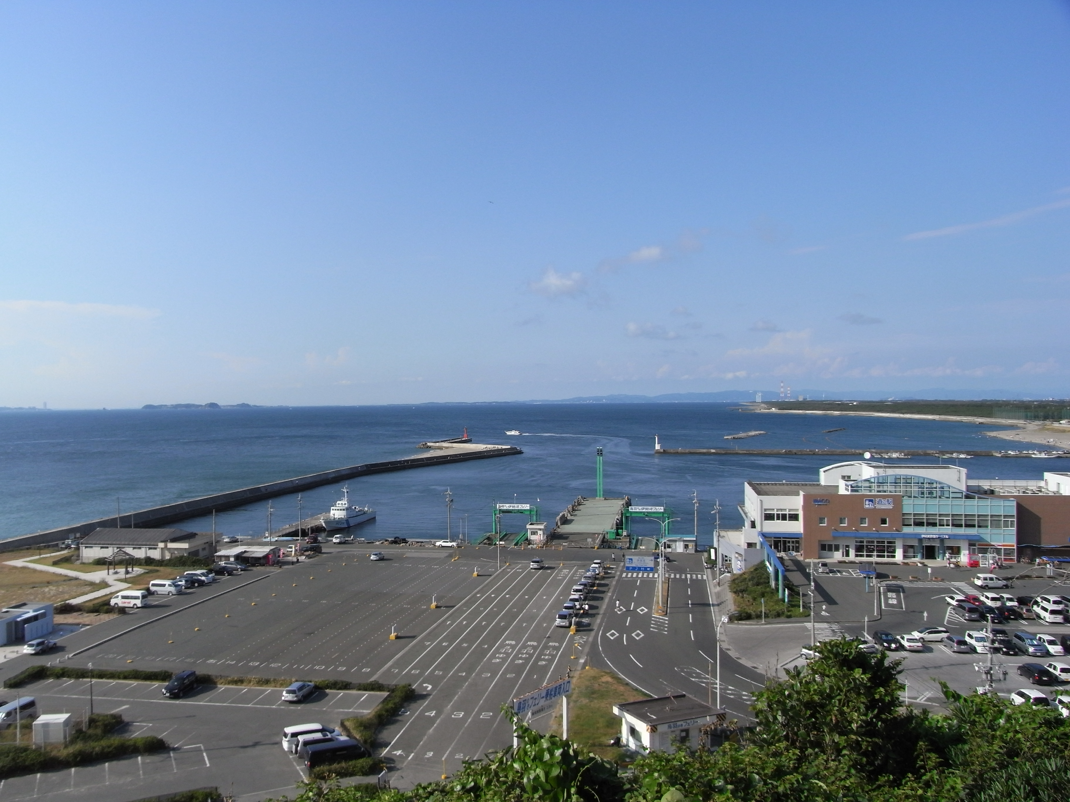 This photo shows the ferry dock of Irago Port in Tahara City, Aichi Pref, Japan.